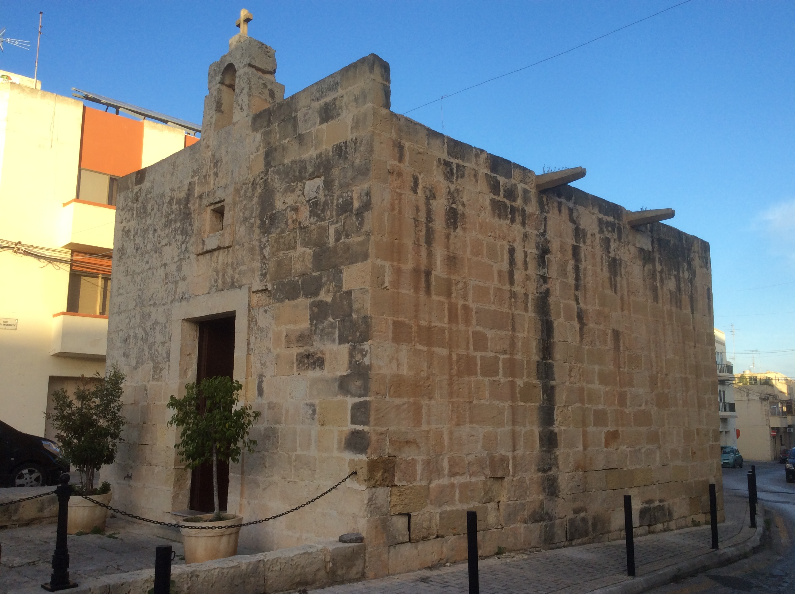 St Margerita chapel